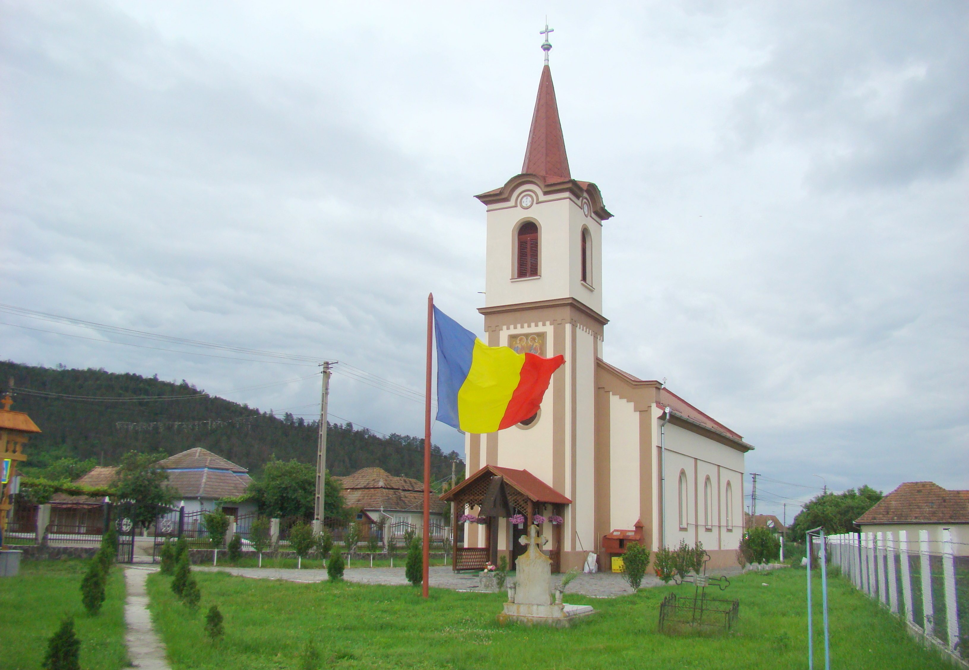 Orthodox church in Hădăreni, Mureş county, Romania